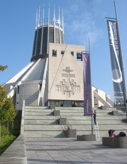 The steps leading up to the main entrance of the Metropolitan Cathedral